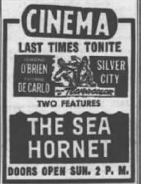 The Cinema Theater advertisement for the American films Silver City (1951) and The Sea Hornet (1951) - 13 Jan. 1952 Morning Call, Allentown PA